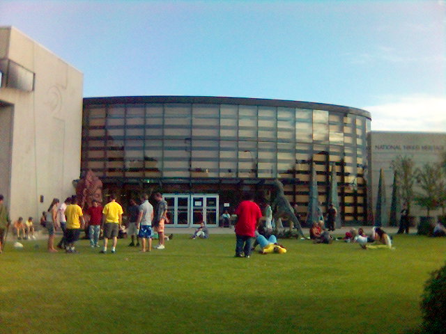 Background performers taking a break at the National Nikkei Heritage Centre in Burnaby during filming of Psych.